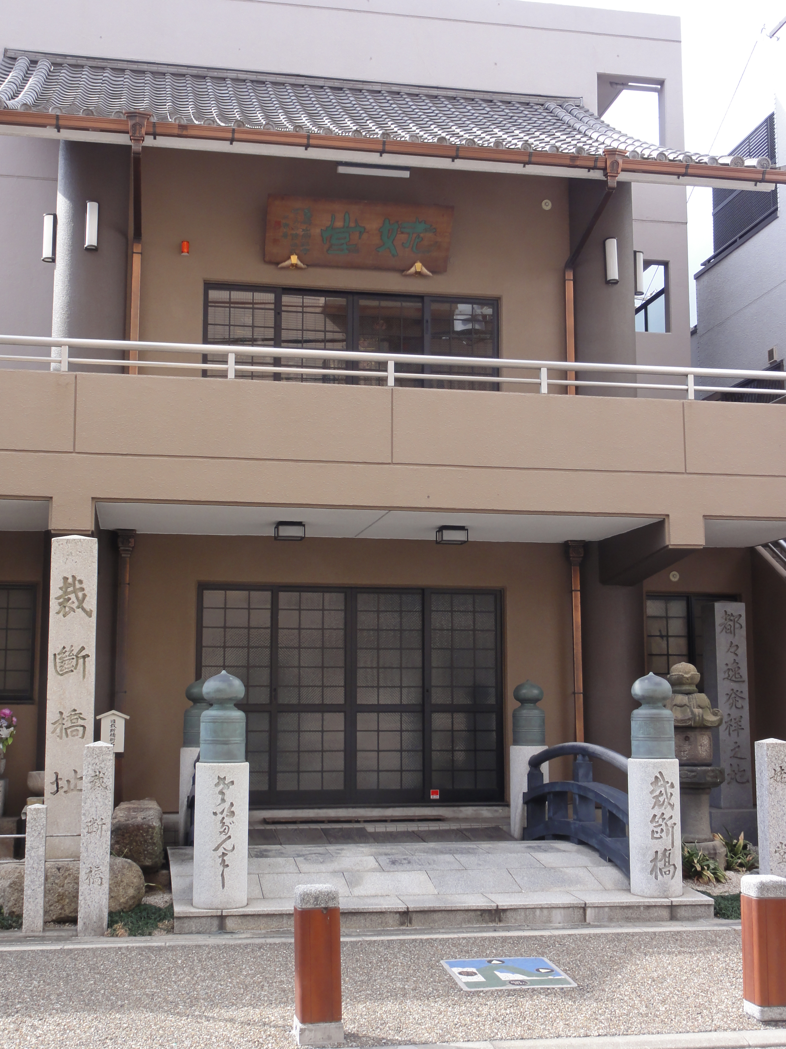 Mark in Saidan-bridge,Aichi Pref., Japan